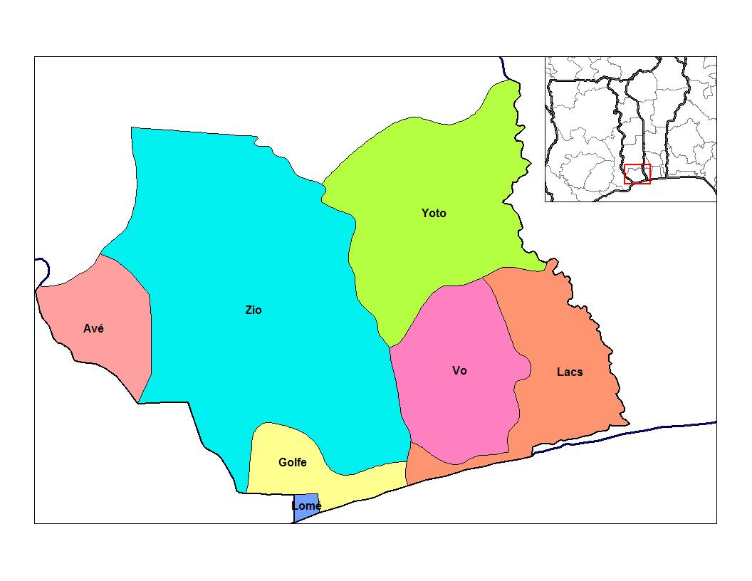 Map of the prefectures of Maritime region in Togo. Created by Rarelibra 20:22, 27 December 2006 (UTC) for public domain use, using MapInfo Professinal v8.5 and various mapping resources.